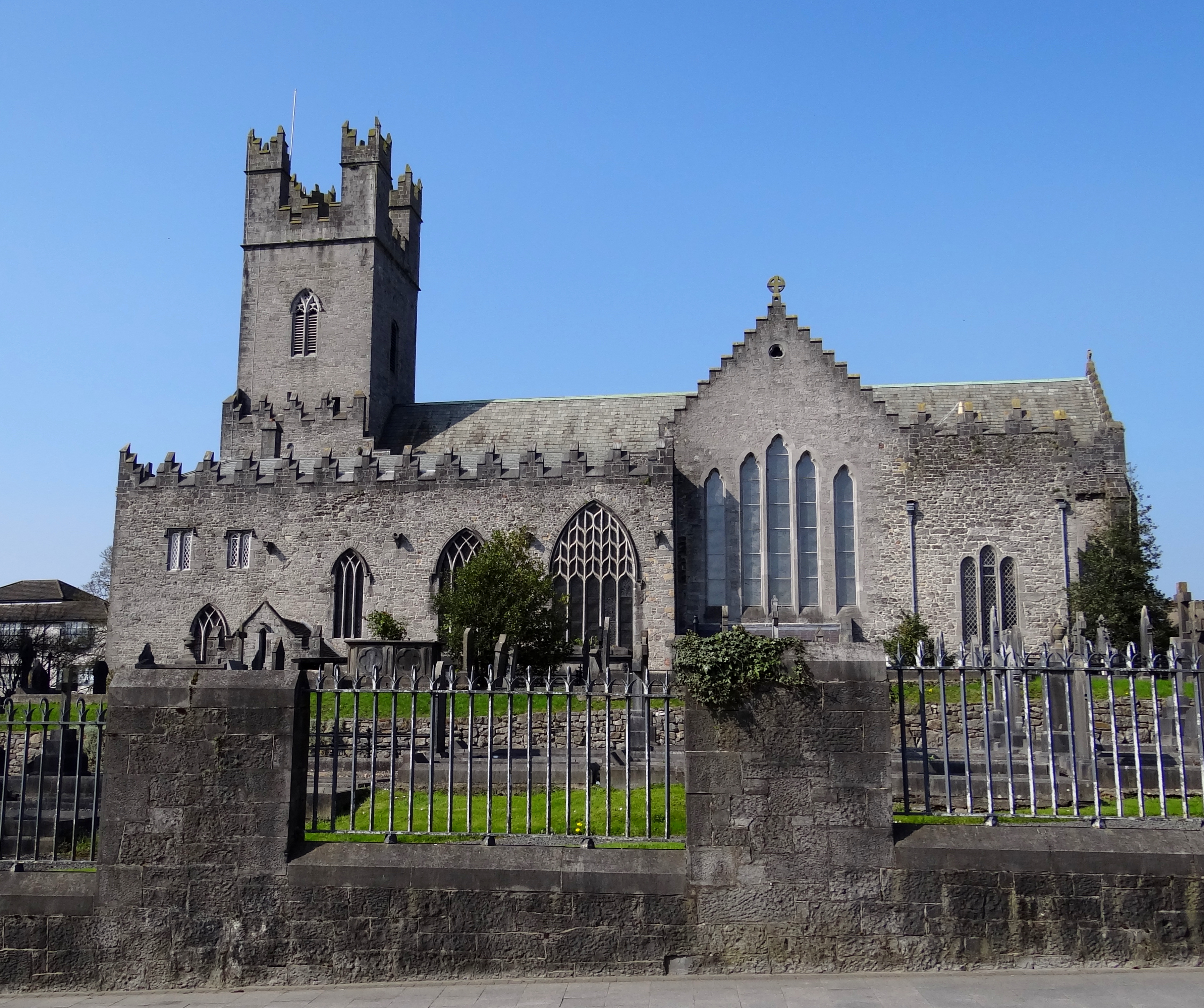 Saint Mary's Cathedral in Limerick City, Ireland, seen from the south, where the cathedral faces Athlunkard Street.